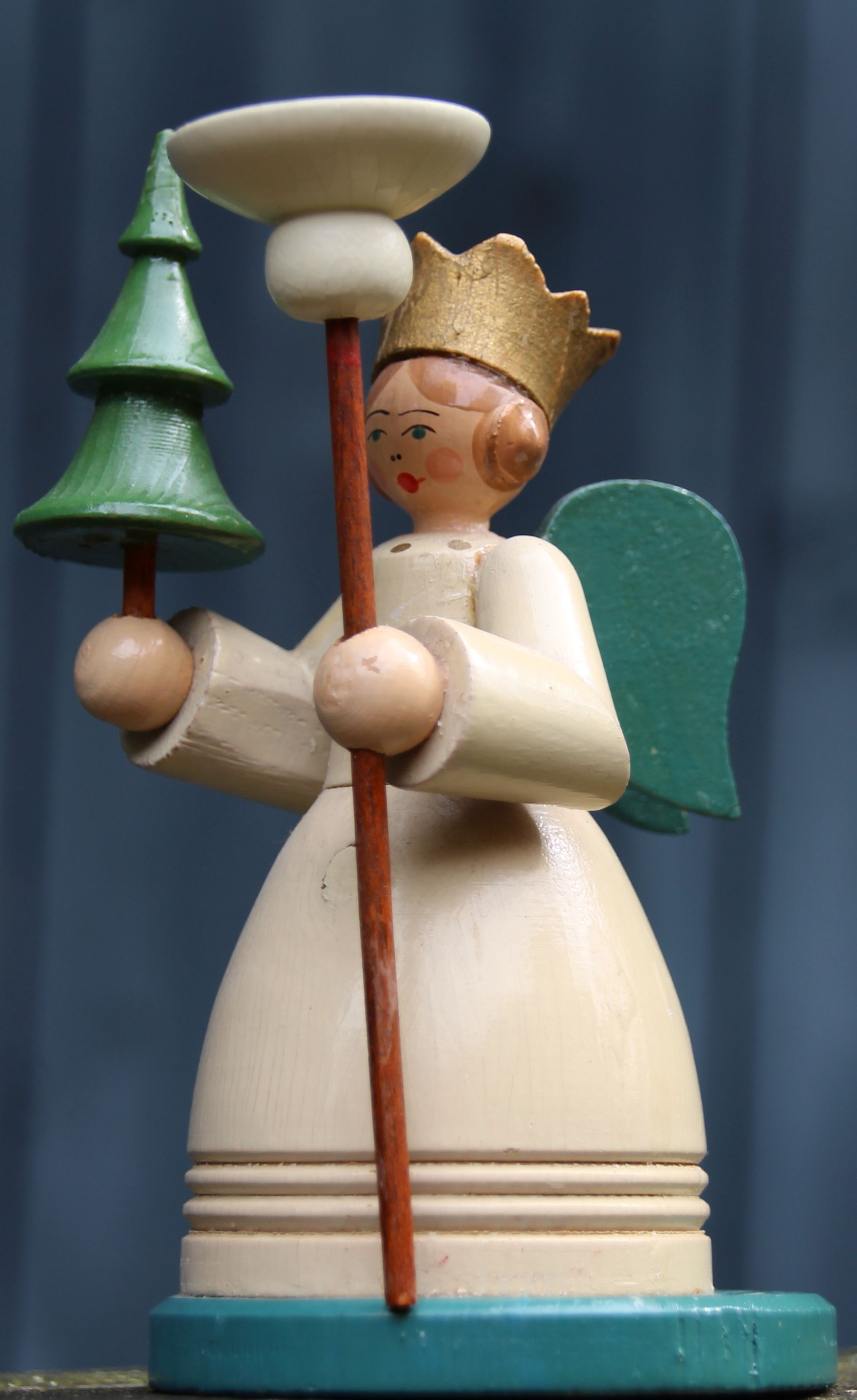 Ore Mountain folk art. Crafted about 1930 in the Ore Mountains. Angel, called "born child", in regional German "Bornkinnel".